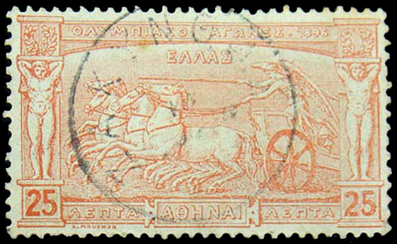 Stamp of Greece, The First Olympic Games, 1896, 25 l.